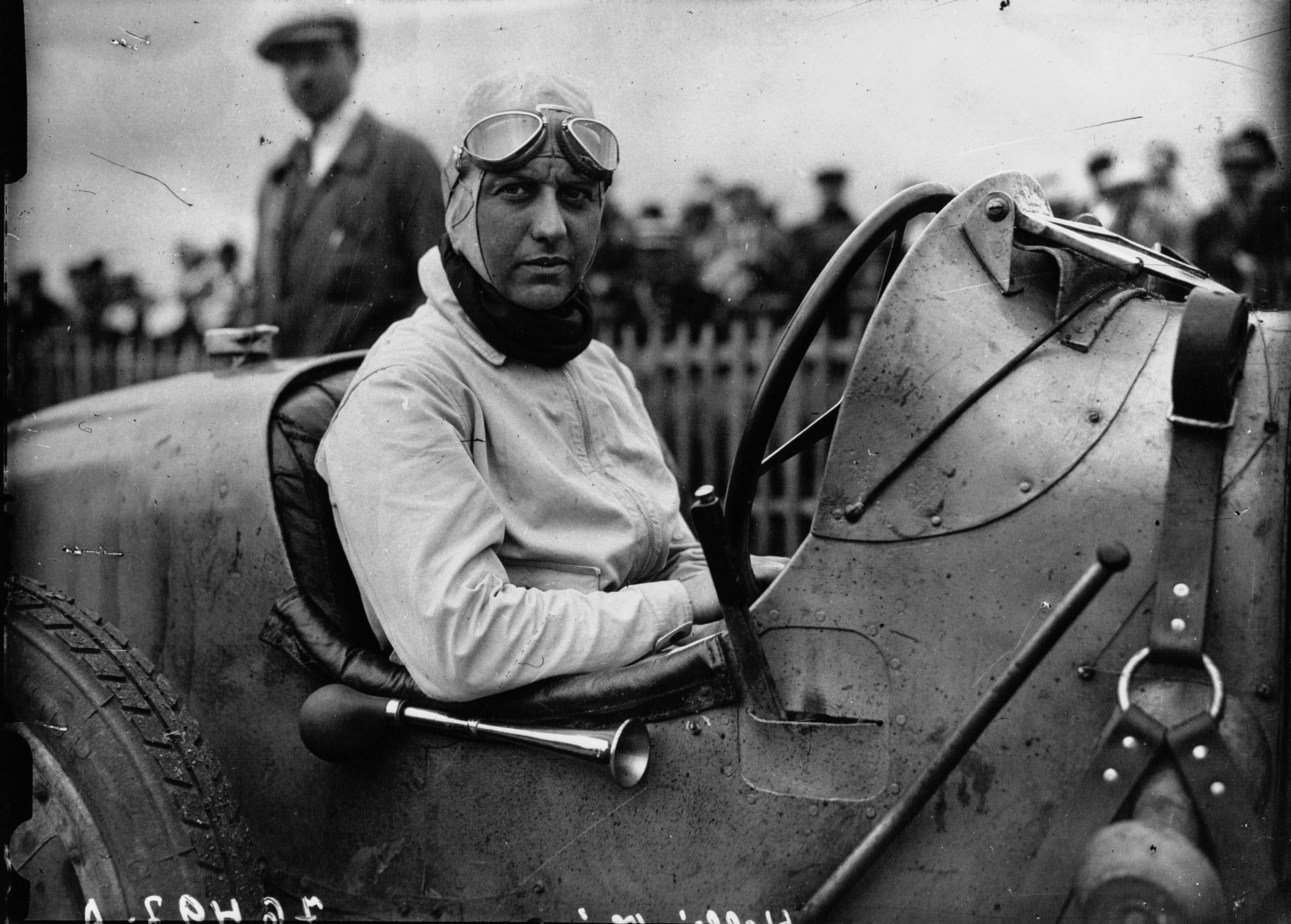 Hellé Nice at the 1930 Bugatti Grand Prix